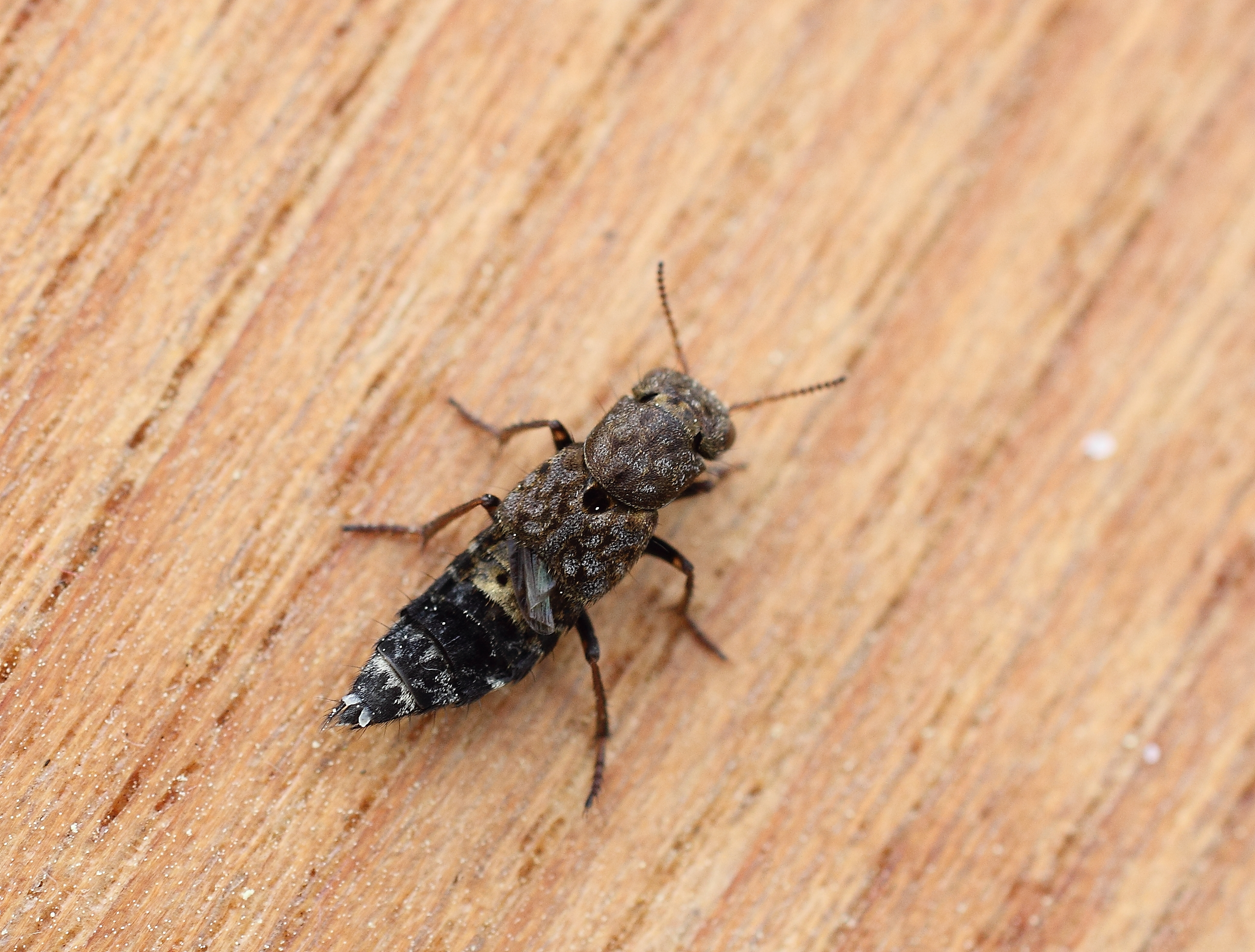 identified as Ontholestes haroldi